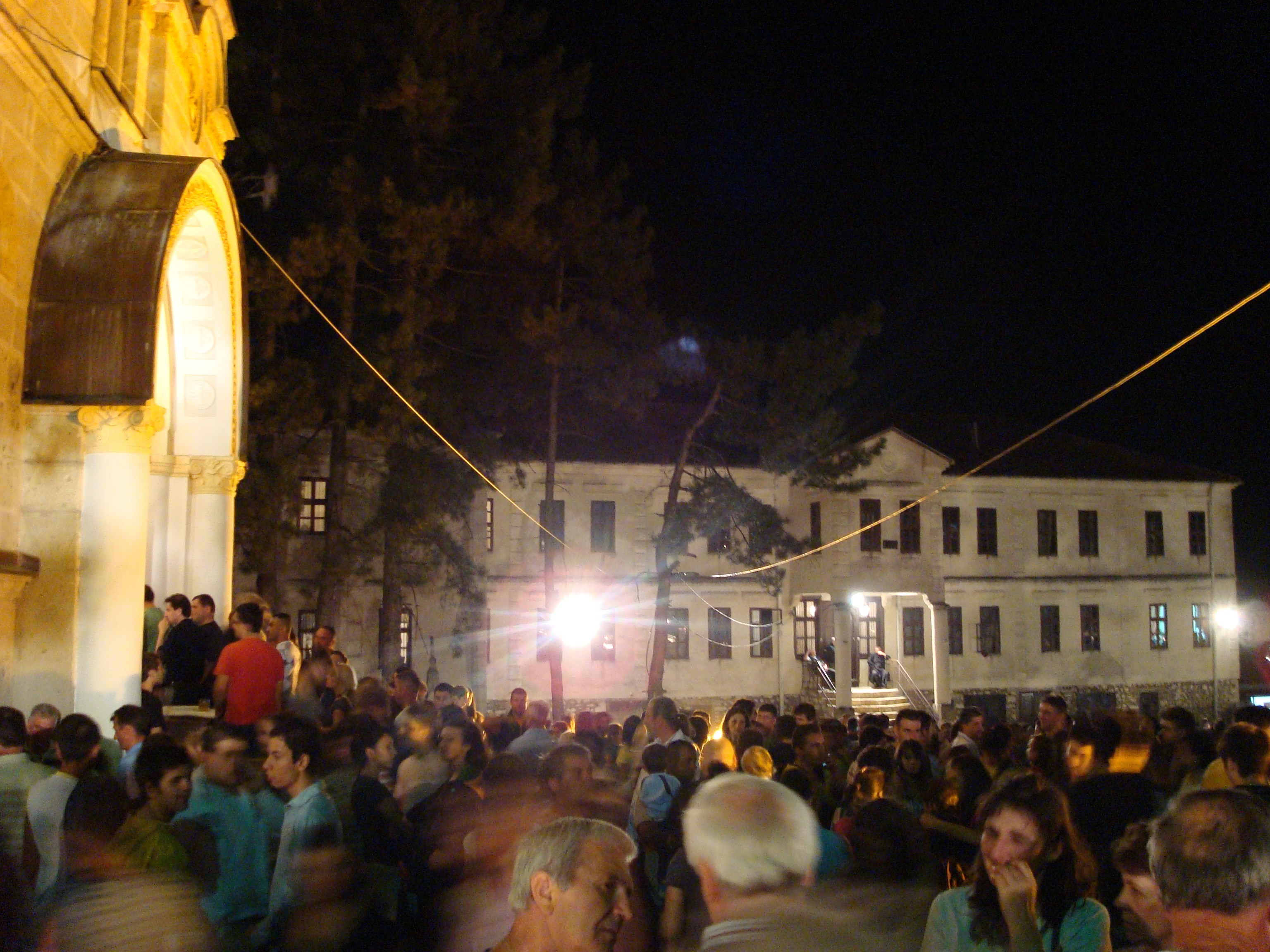 Lešok monastery, Macedonia